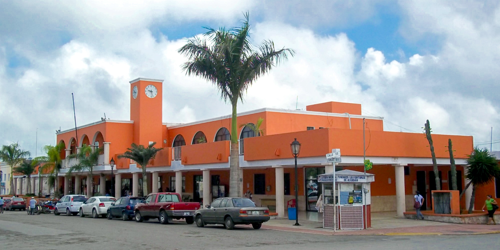 City hall of Tizimín, Yucatán.